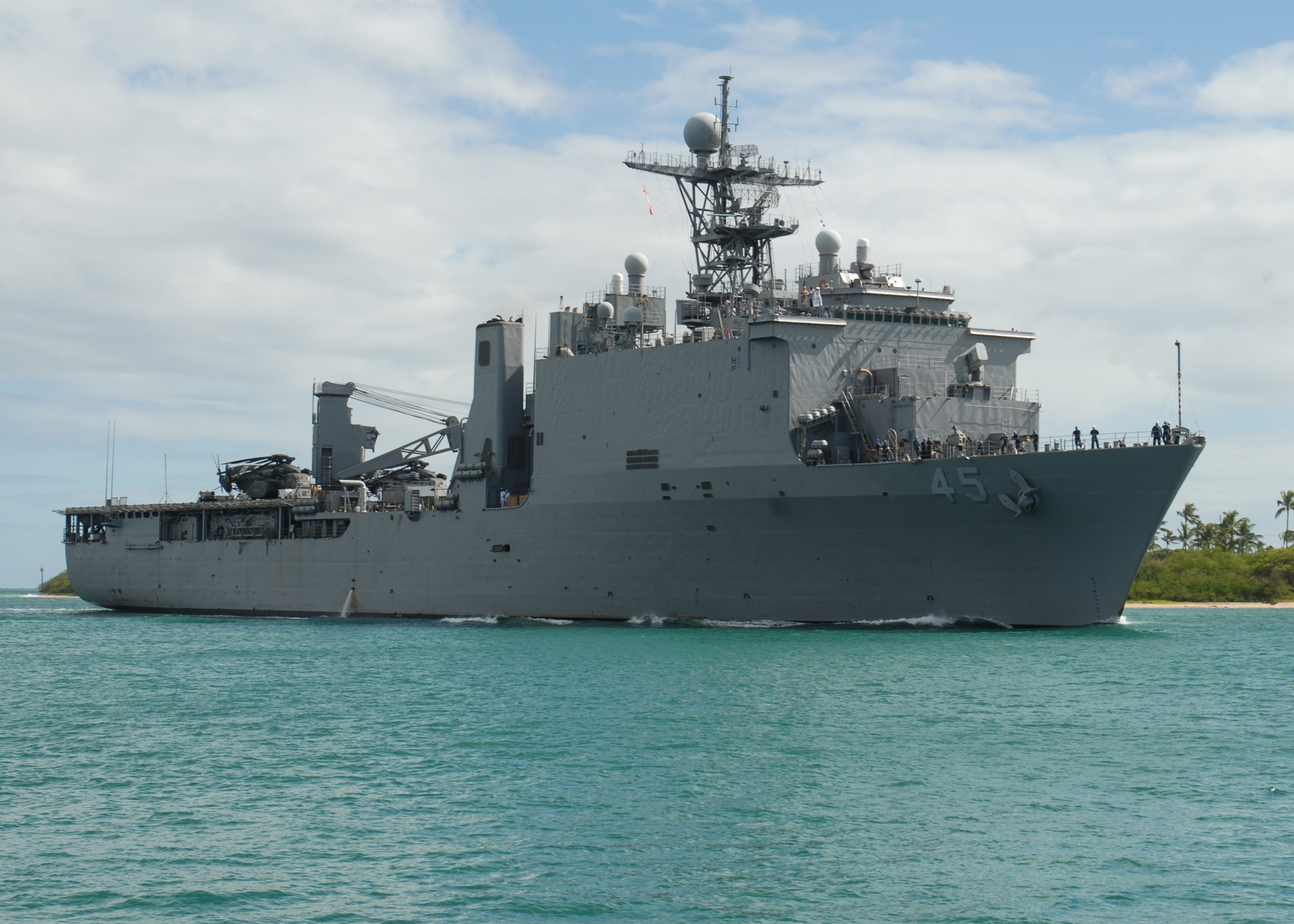 PEARL HARBOR (July 29, 2010) The Whidbey Island-class dock landing ship USS Comstock (LSD 45) returns to Joint Base Pearl Harbor-Hickam after participating in Rim of the Pacific (RIMPAC) 2010 exercises. RIMPAC is a biennial, multinational exercise designed to strengthen regional partnerships and improve multinational interoperability.(U.S. Navy photo by Mass Communication Specialist 1st Class Jason Swink/Released)